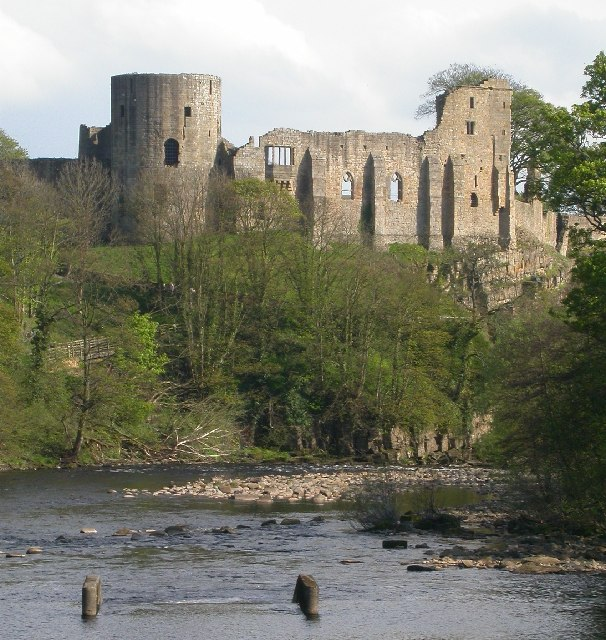 Photograph